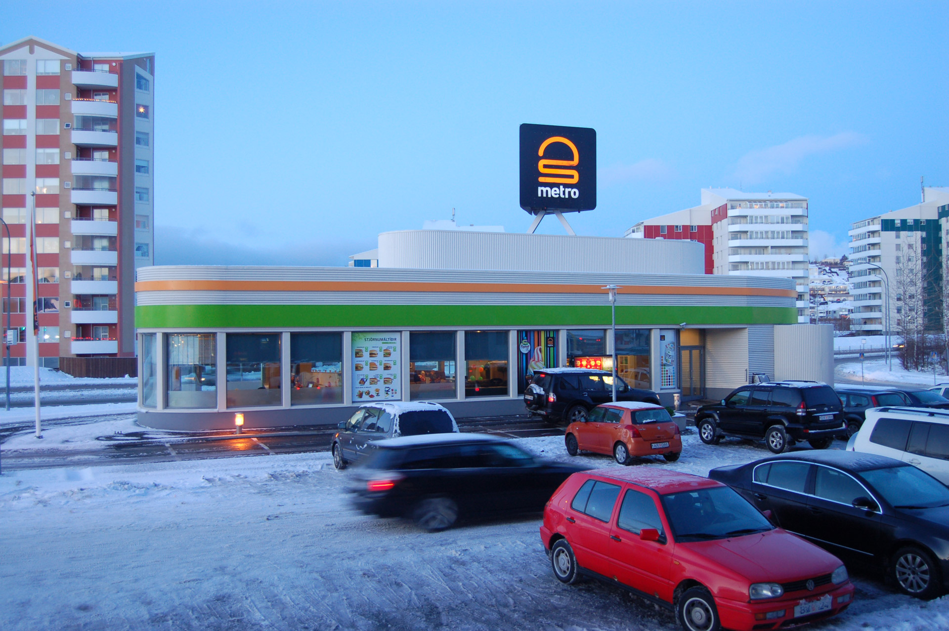 One of the McDonald's Icelandic branch which has been converted to Metro fast food restaurant.